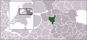 Location of Zwolle